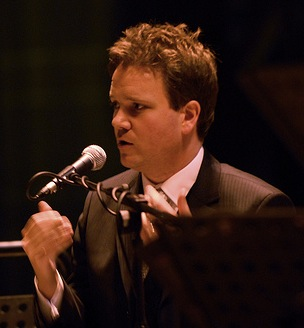 Photo of Keith Getty from photo gallery on used with permission of the office manager. He says to treat them all as public domain.